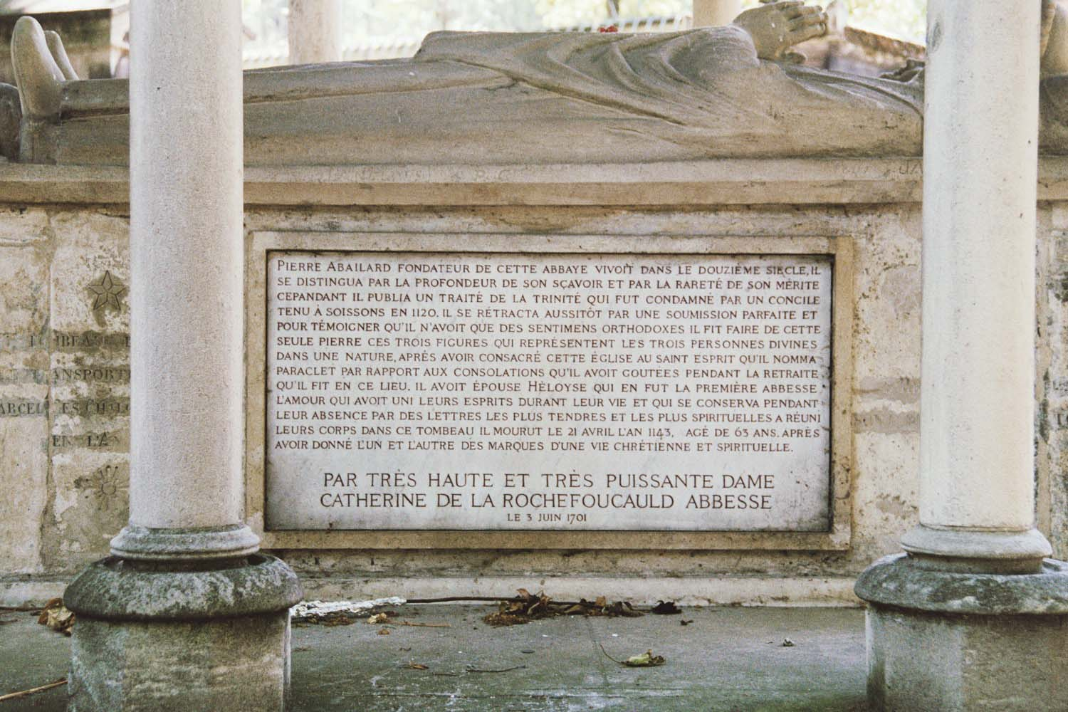 Closeup image of Abelard and Heloise's tomb. Seen in image is the dedicatory side panel. Very readable.